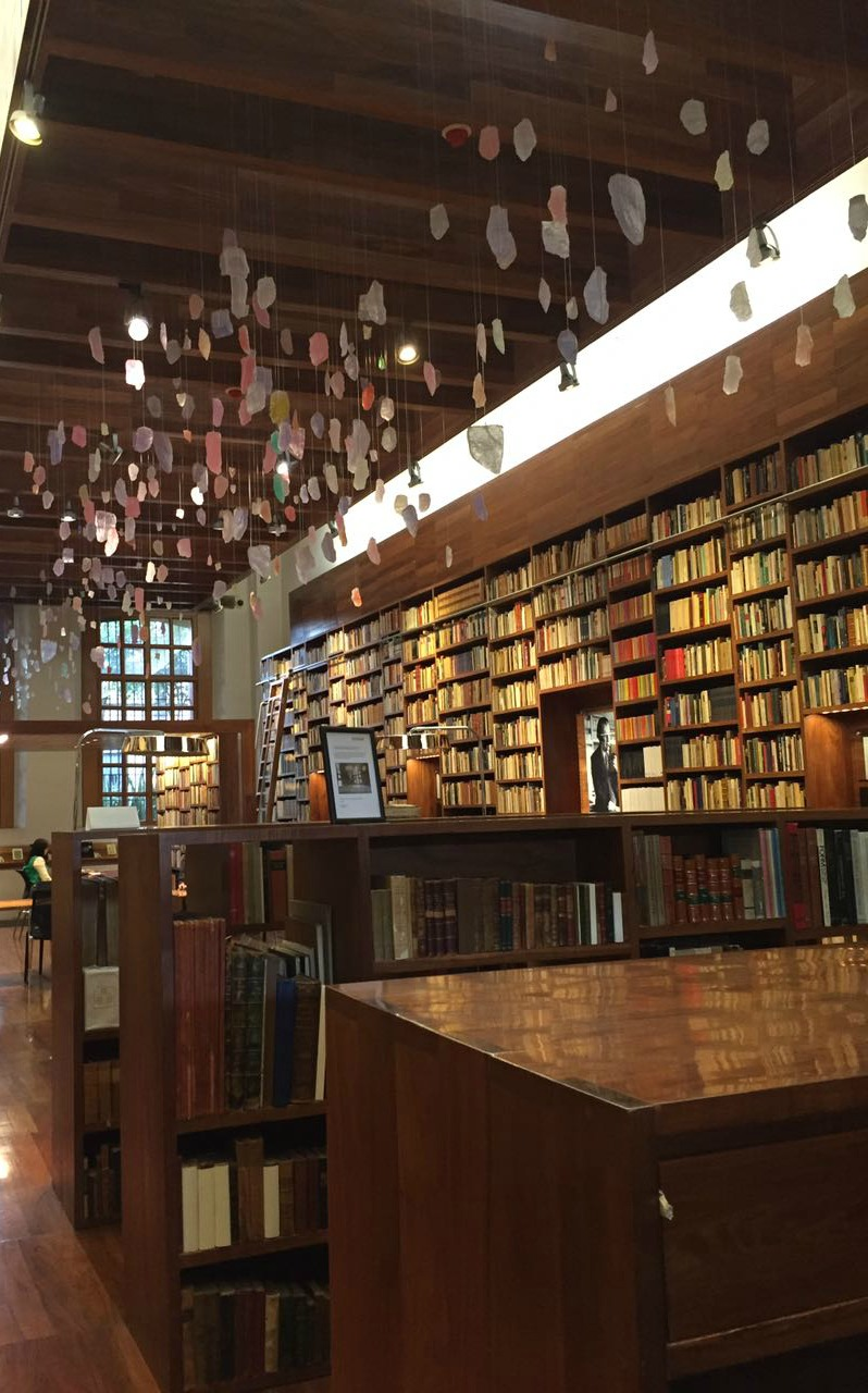 Public library